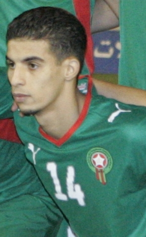 Mbark Boussoufa (Morocco) before the friendly match against Czech Republic on February 11, 2009